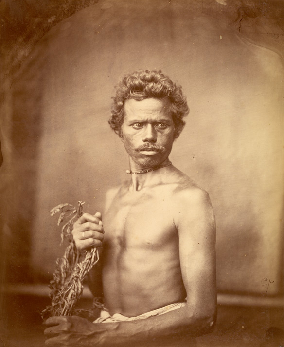 Member of Kaibarta fishing caste in Eastern Bengal in the 1860s